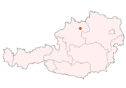 Der Standort von Gallneukirchen in Österreich